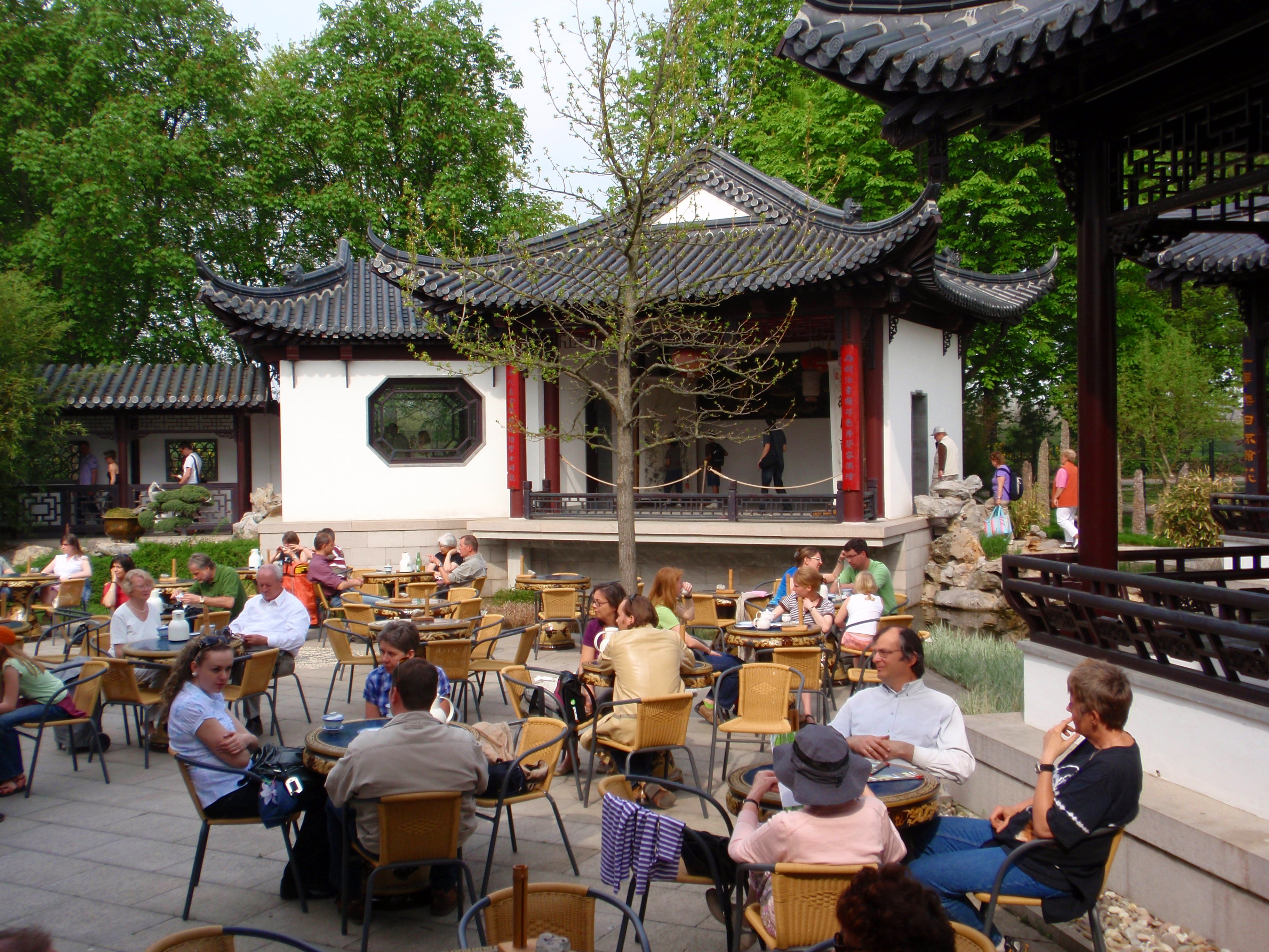 The chinese tea-pavillion "Duojingyuan" ("garden of many views") in the Luisenpark Mannheim (Germany)